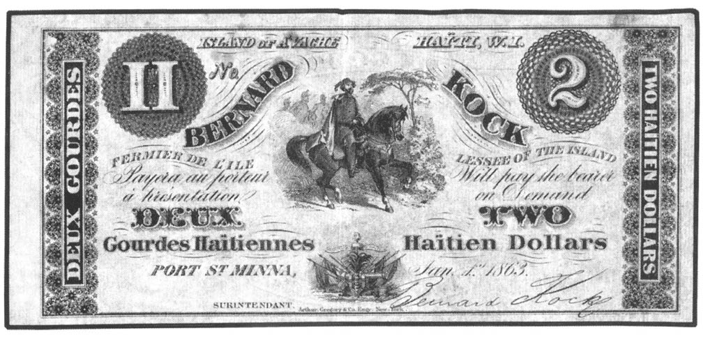 Banknote of 2 Haitian dollars, created by entrepreneur Bernard Kock after he got a rent contract for the Haitian island Île a Vache to grow cotton, using freed slaves from the United States.